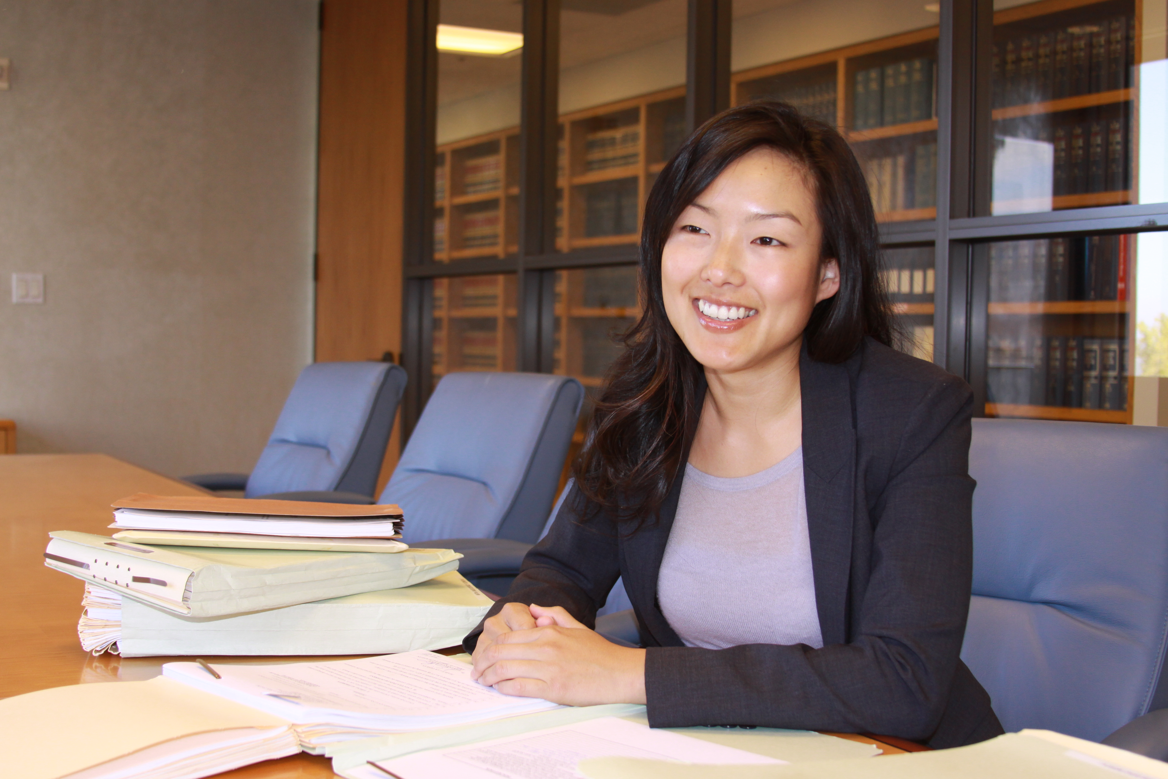 Jane Kim in a conference room working on legal matters.